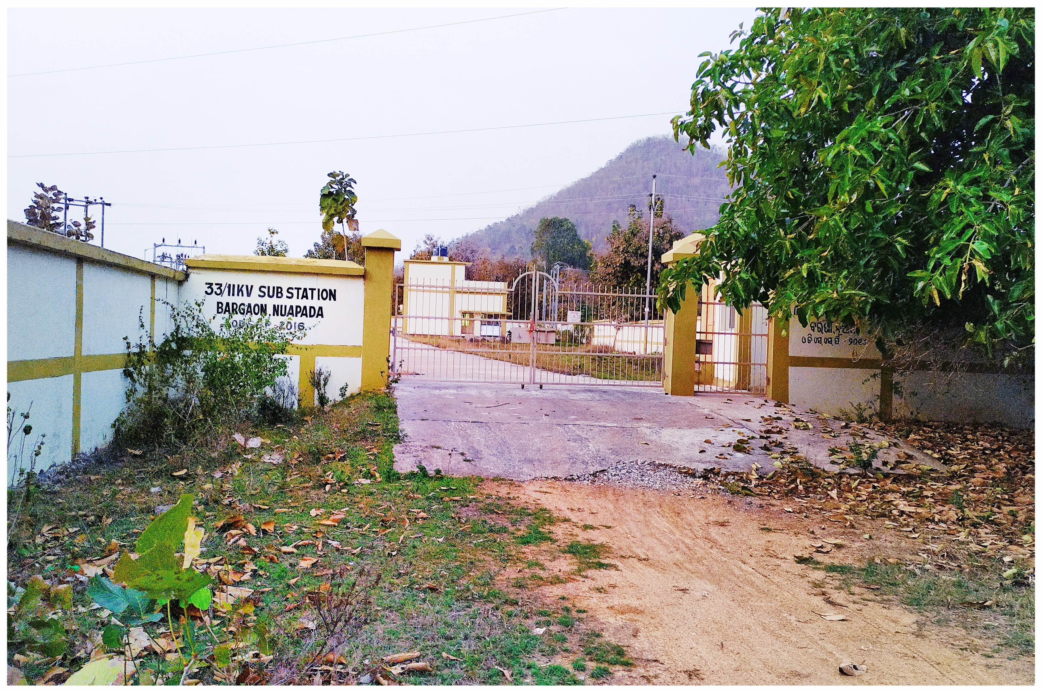 33/11KV Electrical Sub-Station BARGAON